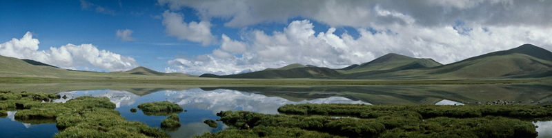 Transhimalaya, region of the source of Raka Tsangpo (5100 m)